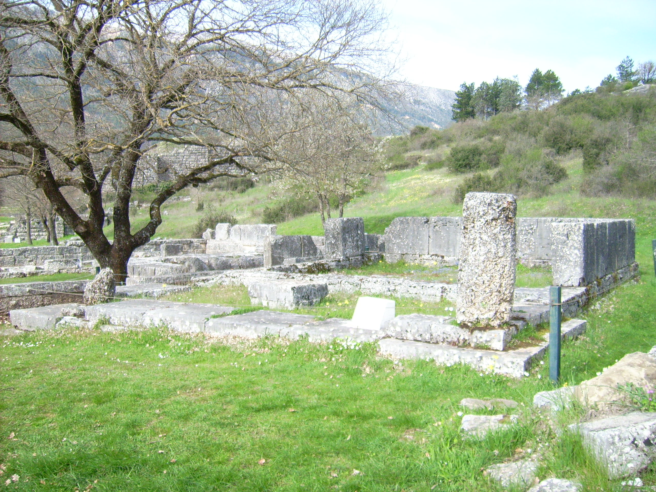 Oracle of Zeus at Dodona - exact discription follows nearby